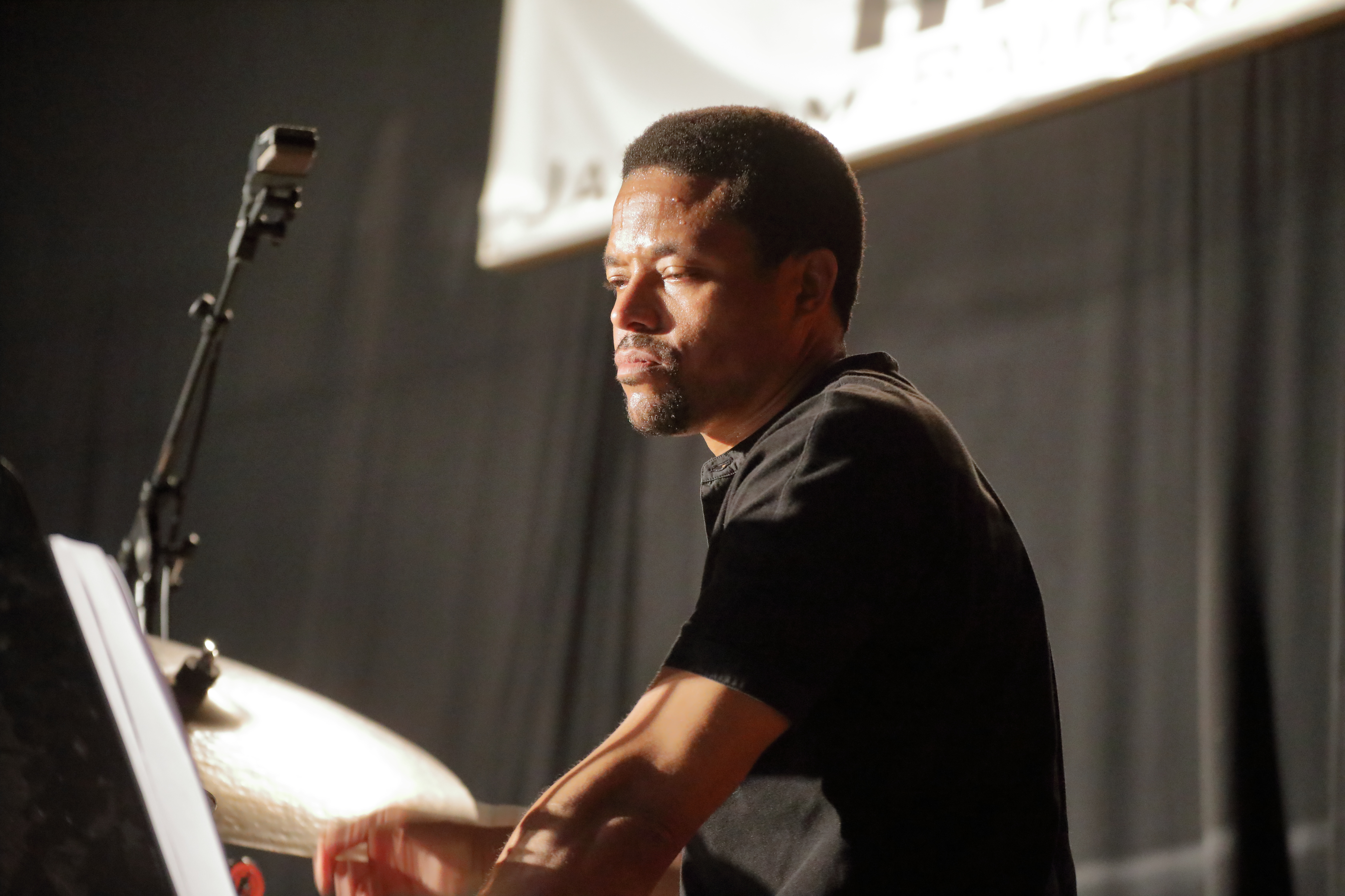 The Florian Weber Quartet with Ralph Alessi (tr) at INNtöne Jazzfestival 2019. Michel Benita (db) & Nasheet Waits (dr).